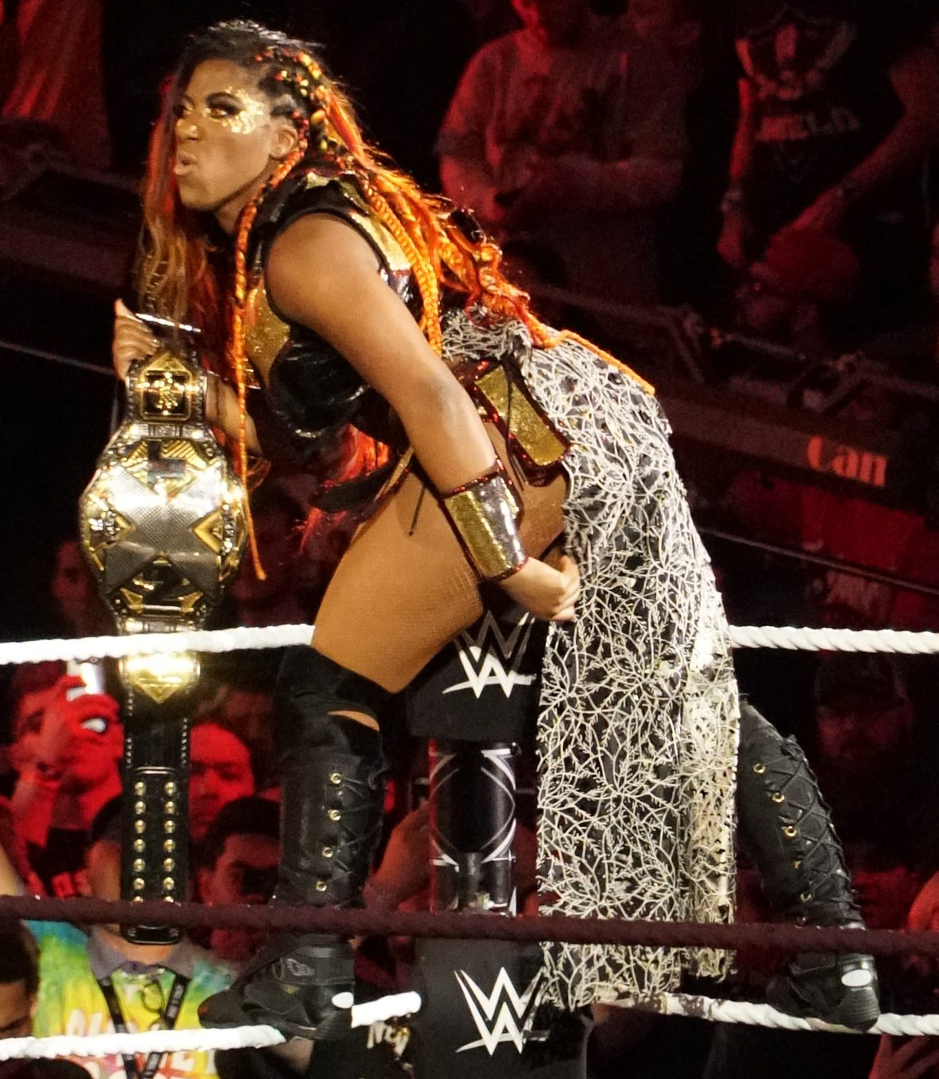 NOLA 2018 - WWE NXT Takeover - New Orleans - Shayna Baszler Vs Ember Moon Shayna Baszler def. (KO) Ember Moon (c) (in 12:55) For : NXT Women's Title (title change) Rating : ***1/4 ( Deux semaines a Nola pour la ville et pour WWE Wrestlemania XXXIV Two weeks Nola for the city and for WWE Wrestlemania XXXIV )